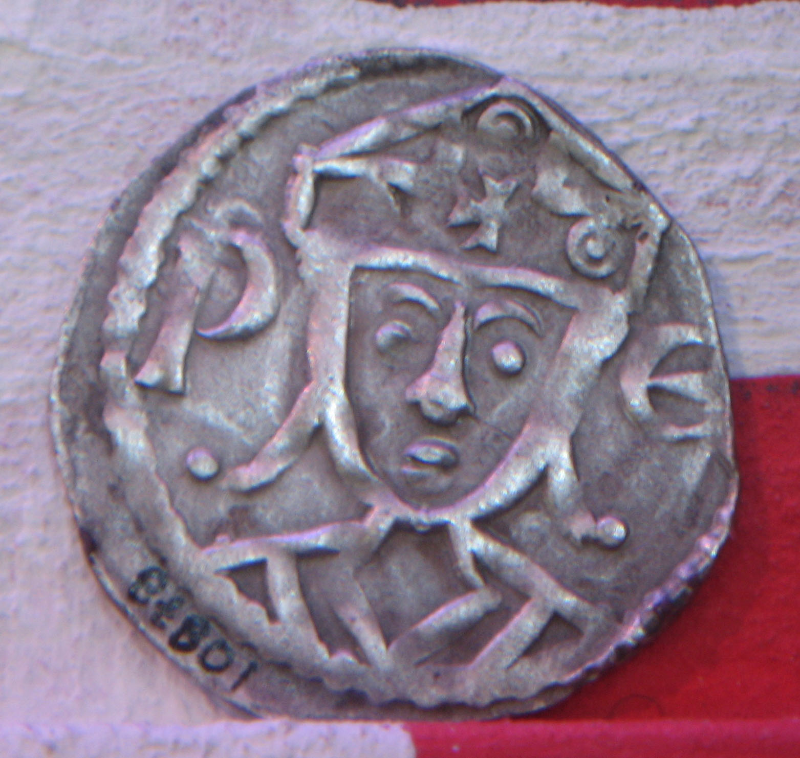 Coin minted for Valdemar II of Denmark, Valdemar II Sejr (1170-1241). King of Denmark 1202-1241. Photo taken at Lunds universitets historiska museum by the uploader.